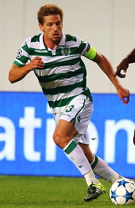 Adrien Silva